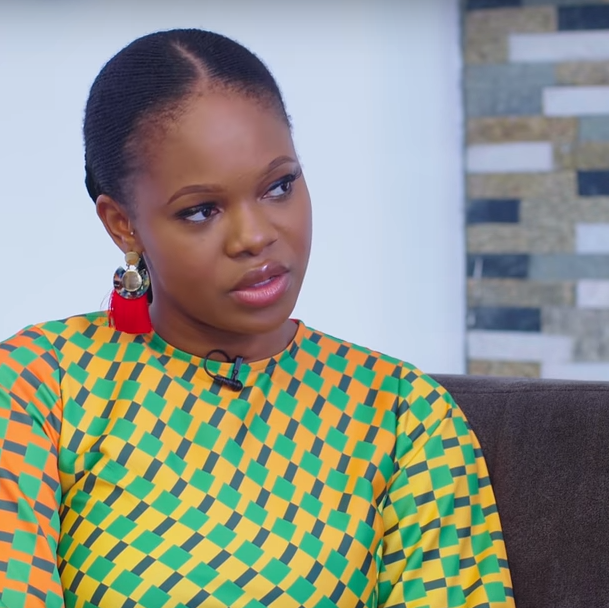 Zainab Balogun-Nwachukwu interviewed on NdaniTV